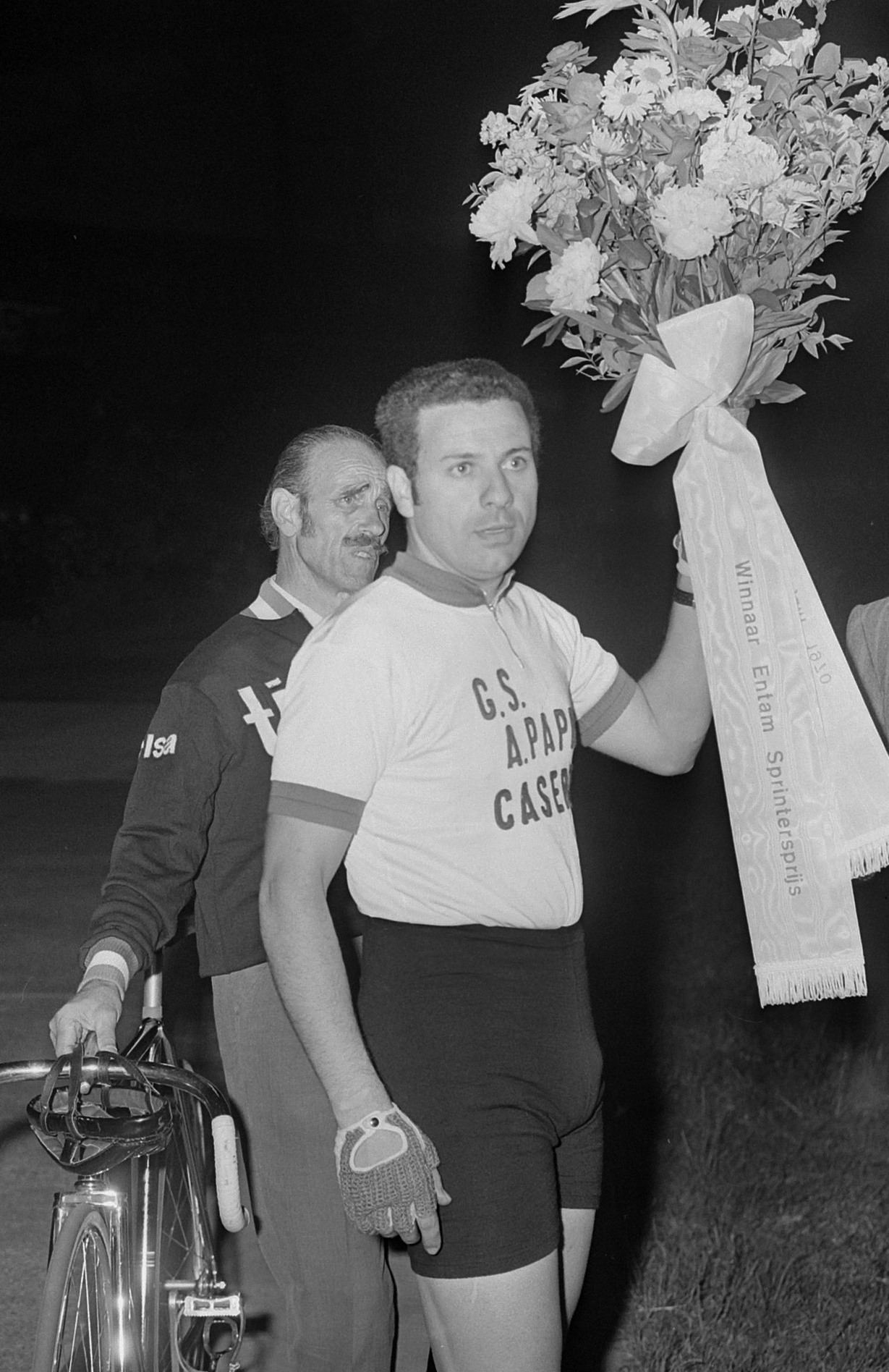 Grote wielerprijs van Amsterdam in Olympisch Stadion , Amsterdam: Damiano met bloemen